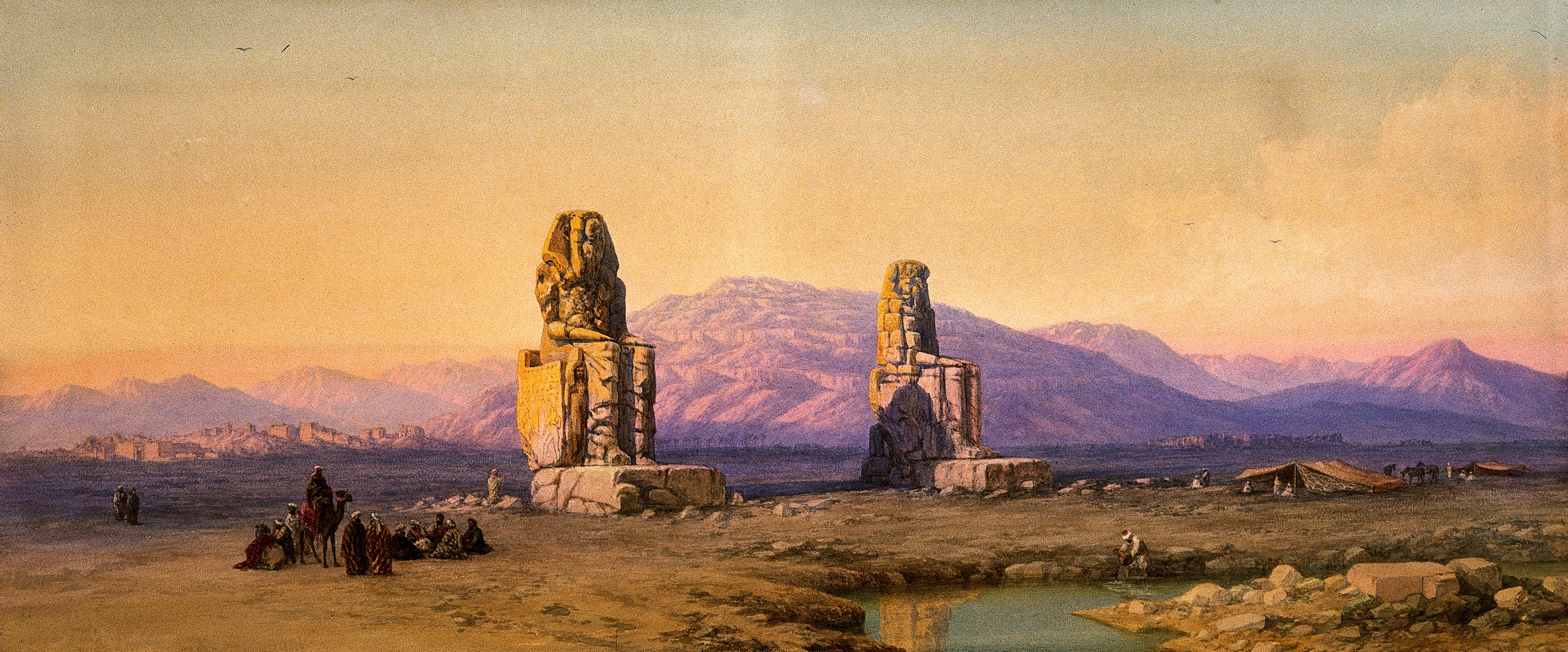 The statues of the Memnons. Watercolour by Charles Vacher. Iconographic Collections